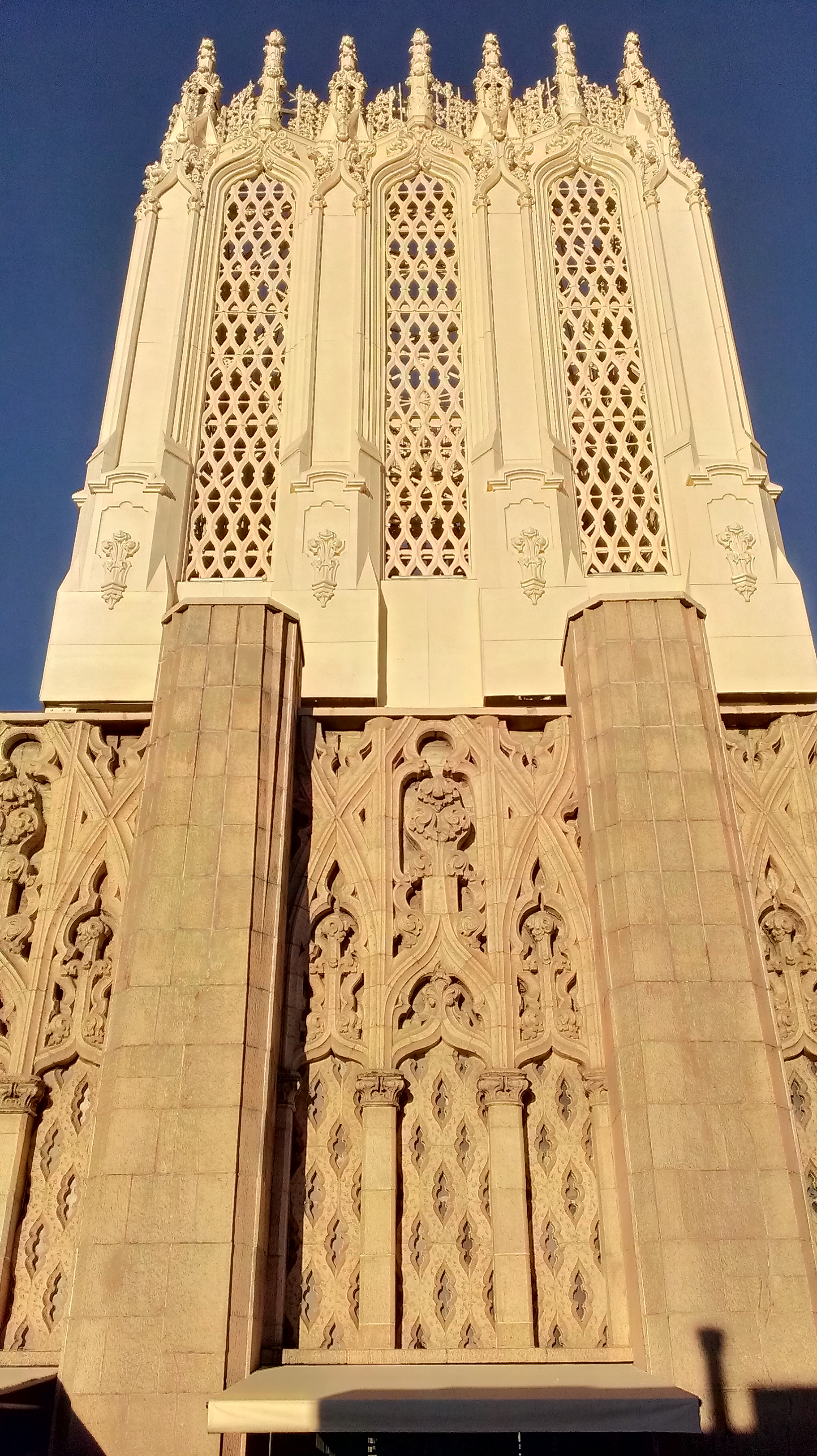 Detail of the crown and top of the United Artists Building, from the top floor lounge of the Ace Hotel Los Angeles.